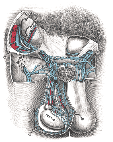 Spermatic veins. (Testut.)